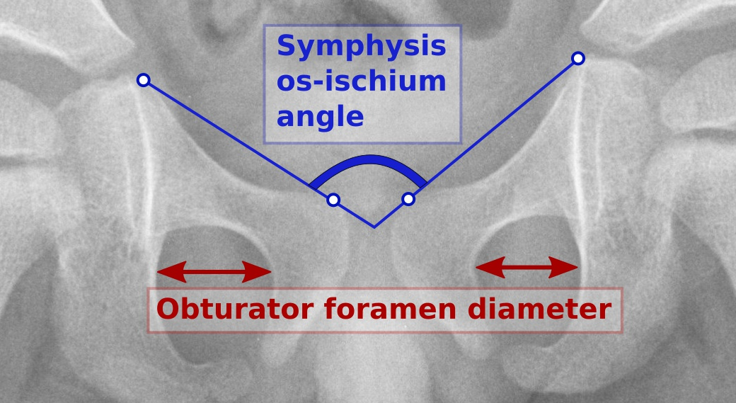 Image quality checking when evaluating image for X-ray of hip dysplasia